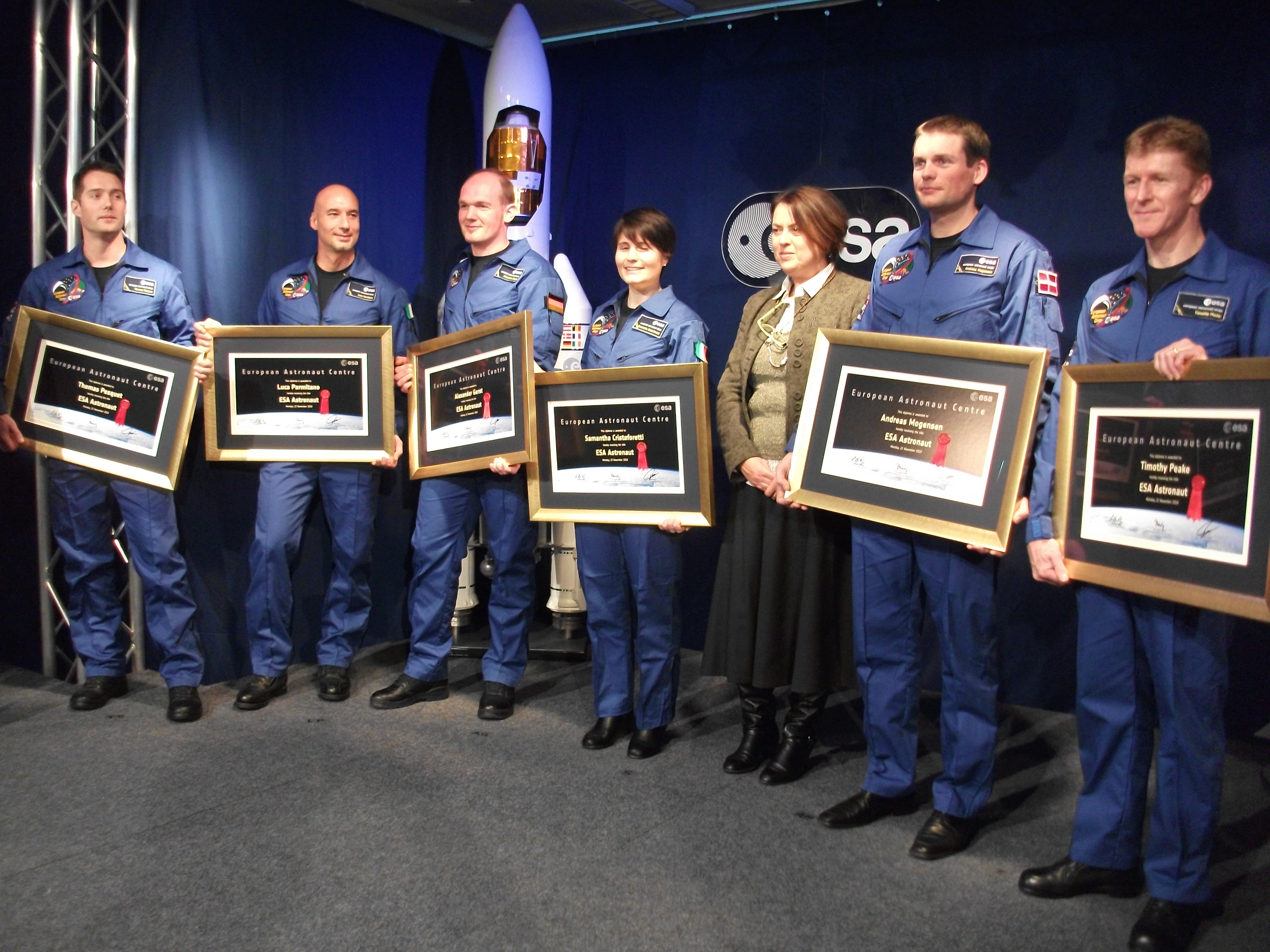 ESA Astronaut Class of 2010